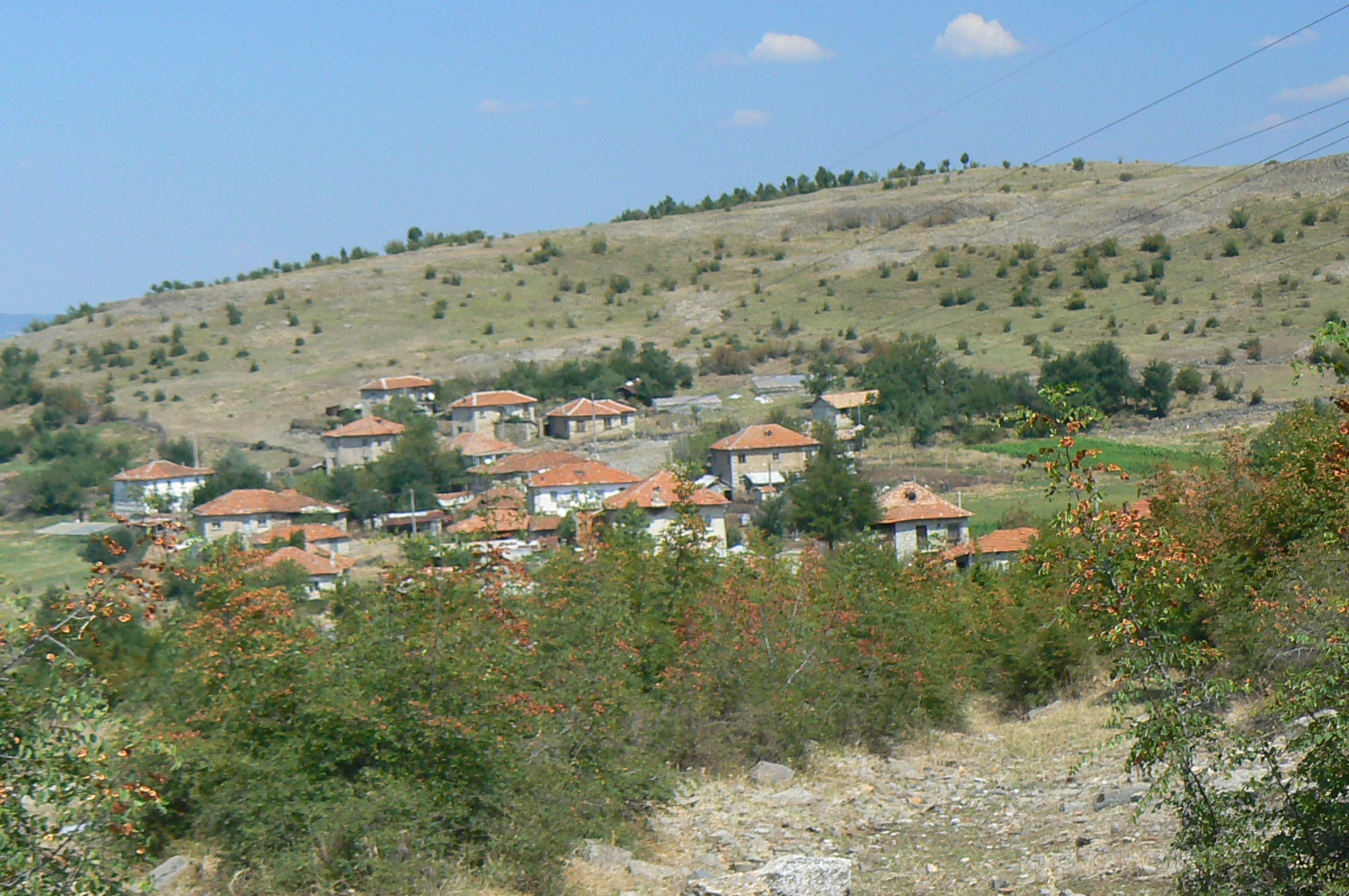 Village Djanka, Bulgaria